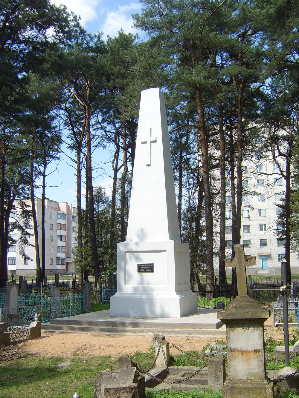 Obelisks to 183 workers stage repatriation in Baranavichy, 1923